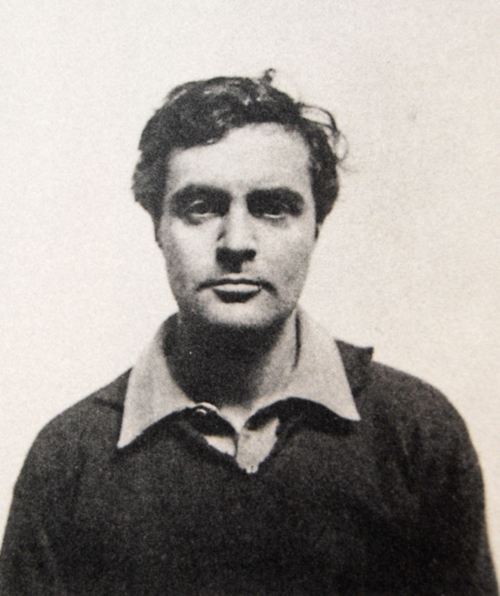 Amedeo Modigliani, Photo made for the identification in Nice, dated 1918. Modigliani lost all his documents and this picture was taken to do new ones